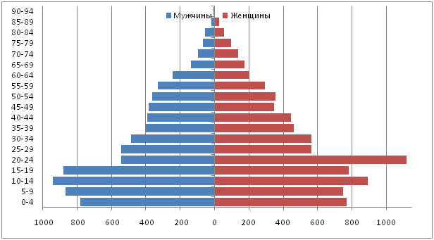 Age pyramid of Wallis and Futuna based on census 2003